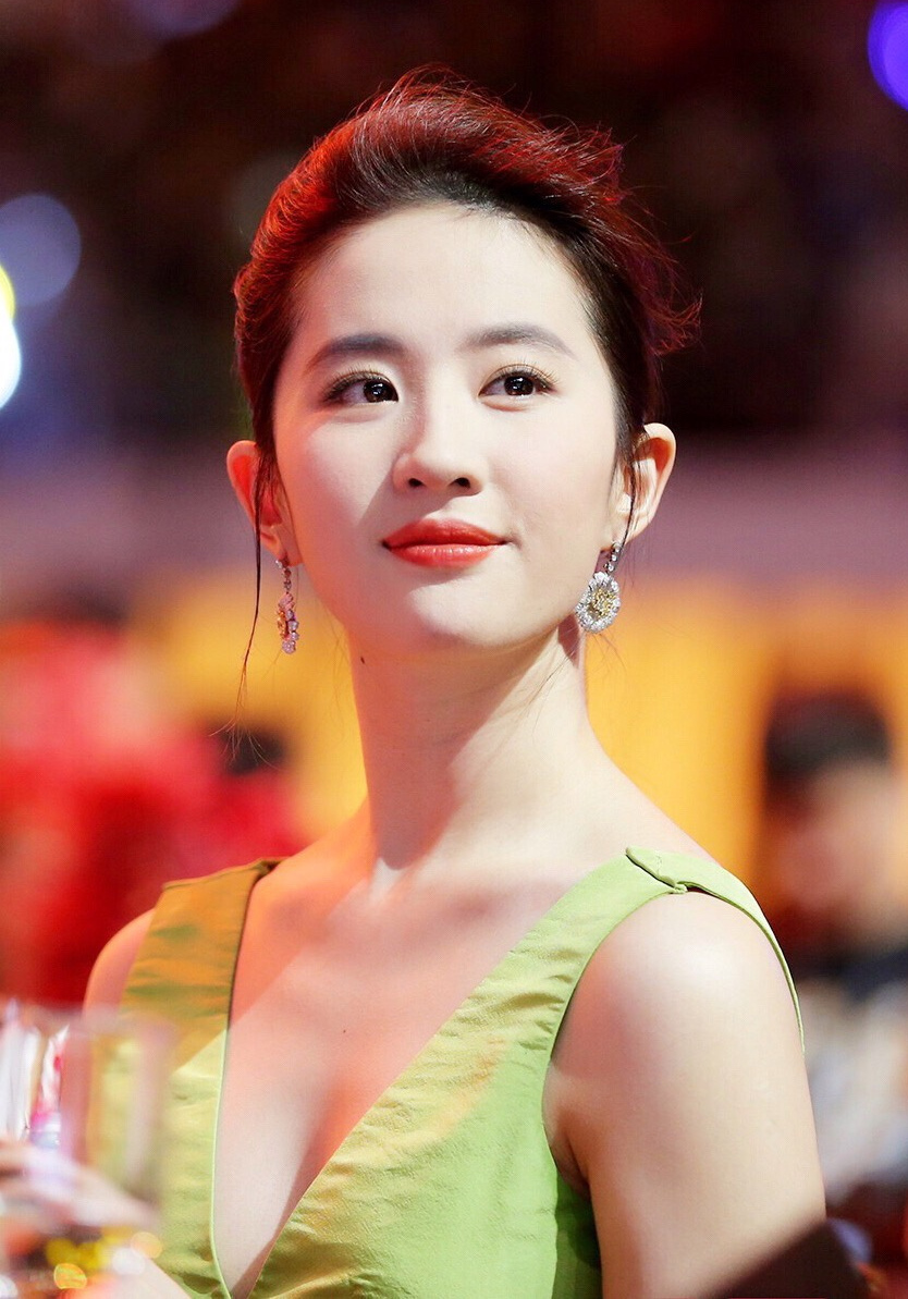 Liu Yifei at the 2016 BAZAAR Stars’ Charity Night on 9 September 2016